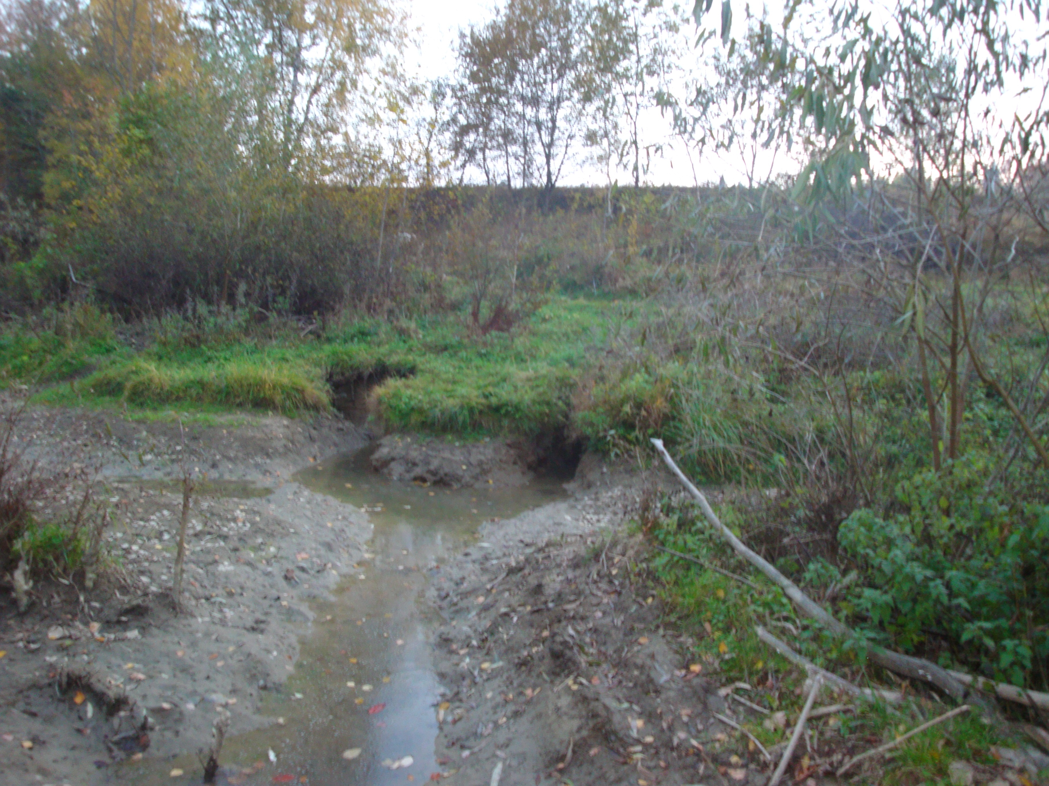 Beaver burrows near Myczków, Poland